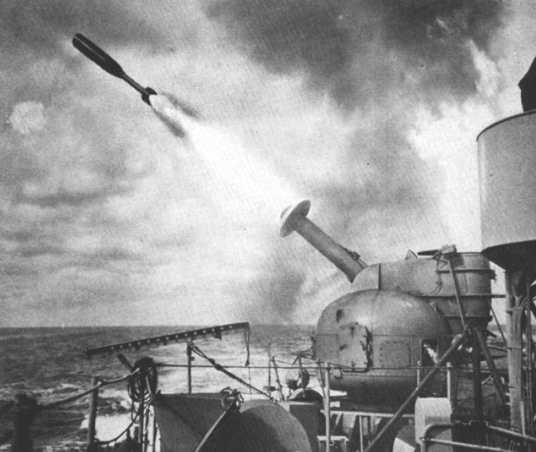 Launch of a U.S. Navy RUR-4 Weapon Alpha from a Mark 108 launcher.